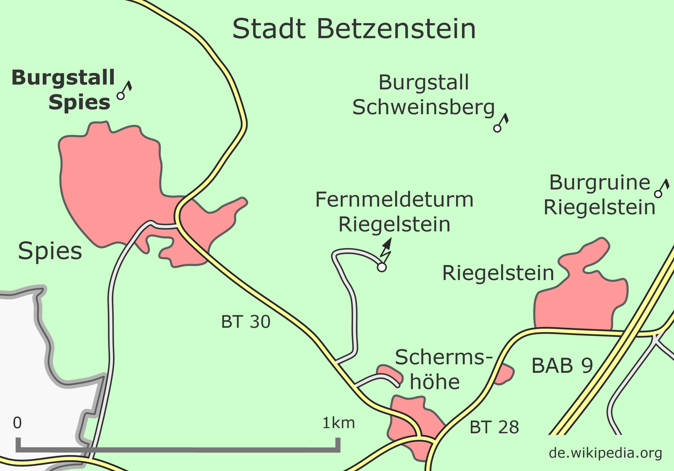 Surrounding map of the former site of the castle of Spies, located five kilometers south of the town of Betzenstein